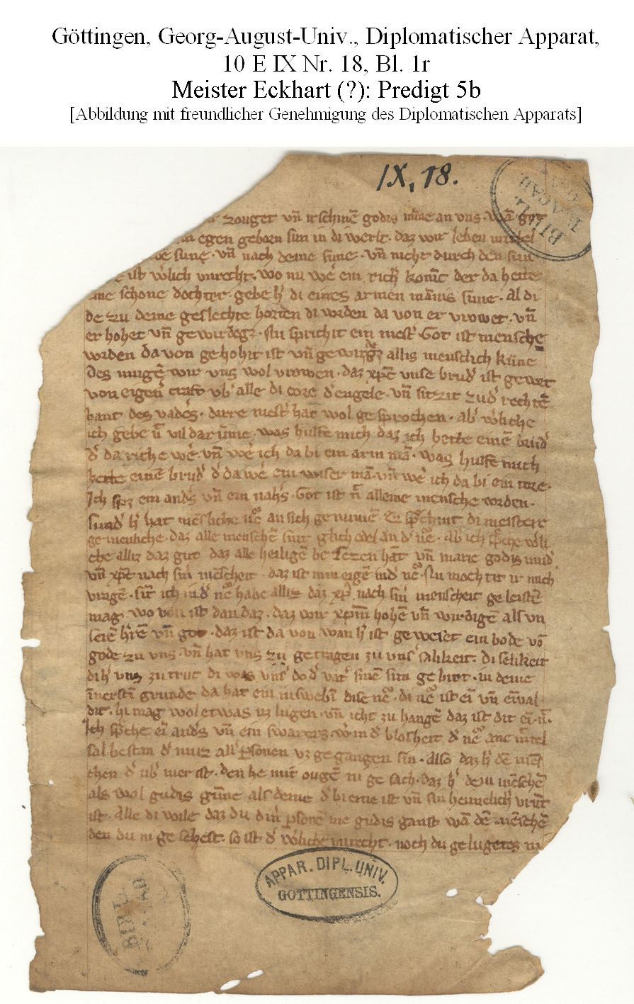 Oldest fragment of sermon 5b of Meister Eckhart being actually one of the oldest Eckhart hand-down (see press release